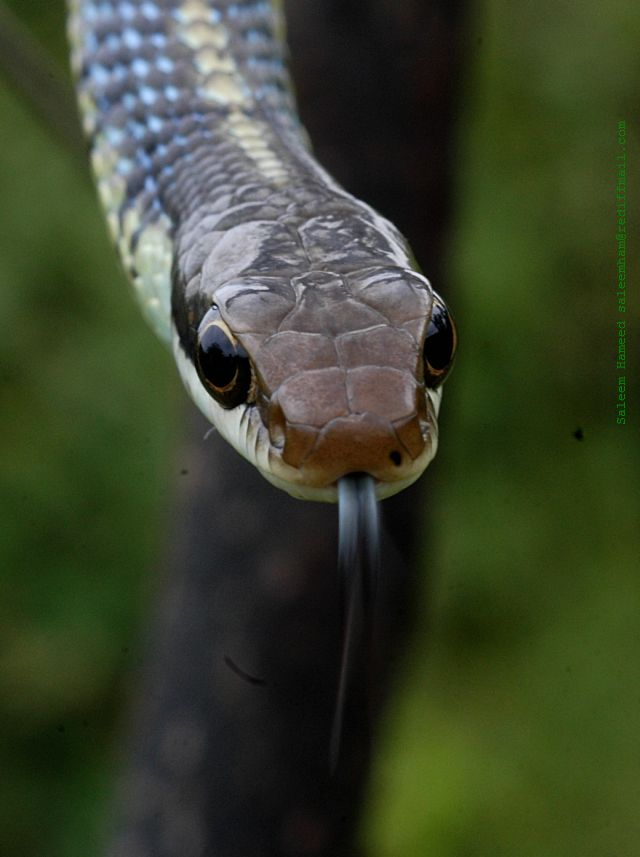 Bronzeback treesnake, Dendrelaphis tristis, head, India